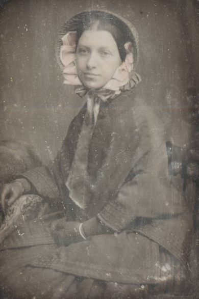 Elizabeth Wood Kane as a young woman. Date of photograph is unknown, but was likely taken in around 1850.